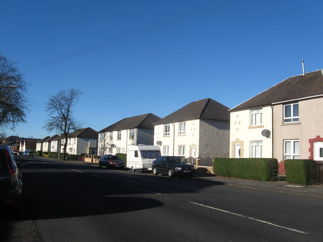 Housing at Gallowflat in Rutherglen